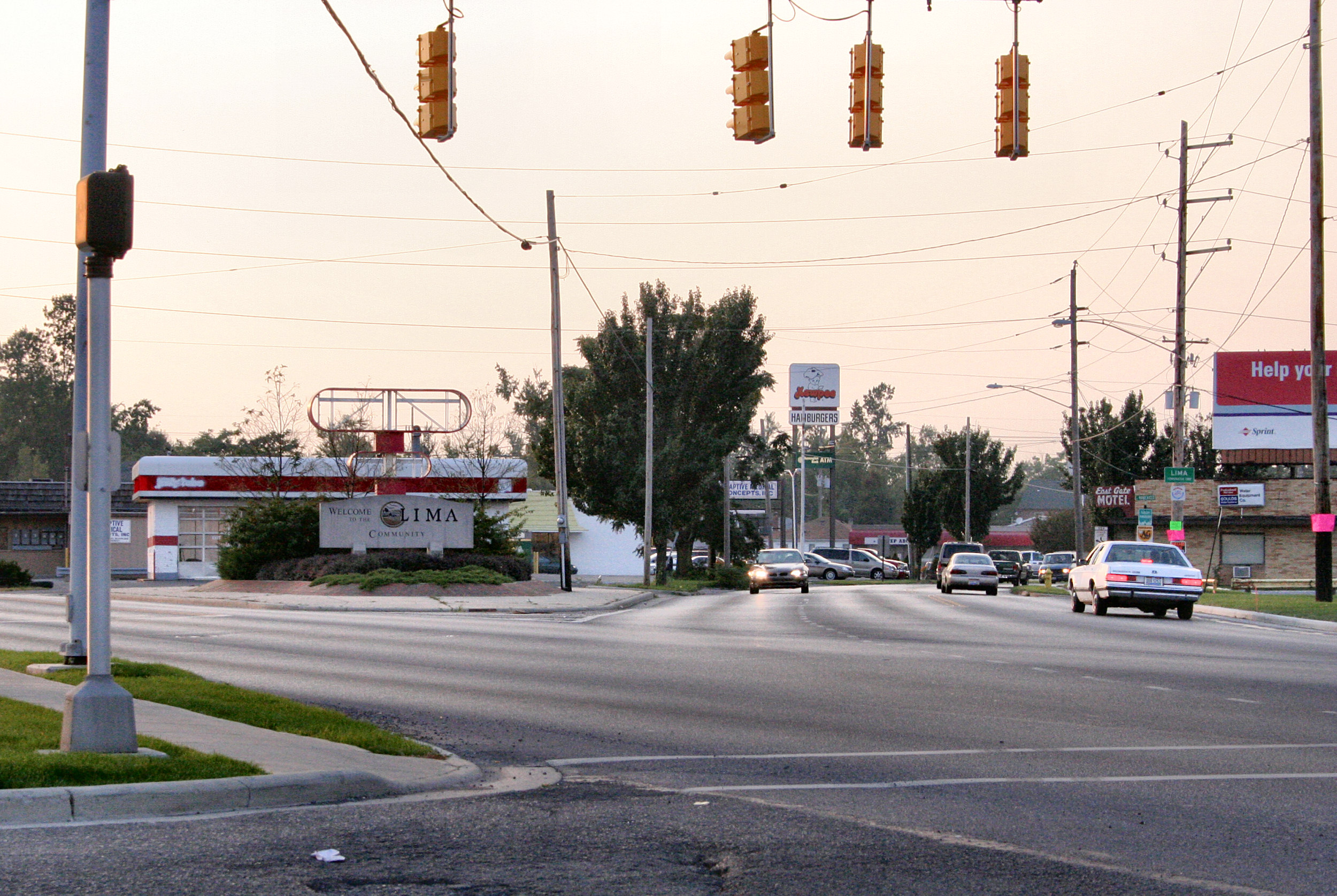 Lima, Ohio business district. Photo shot by Derek Jensen (Tysto), 2005-October-02